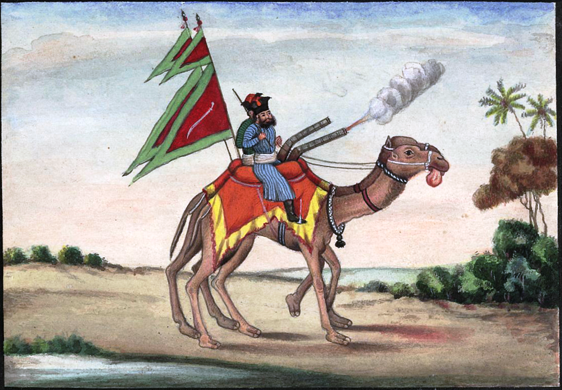 Zumbouruckchee or Camel Artillery men, from Zurmbooruck, a piece of Ordnance of small Calibre. From 'Reminiscences of Imperial Delhi’, an album consisting of 89 folios containing approximately 130 paintings of views of the Mughal and pre-Mughal monuments of Delhi, as well as other contemporary material, with an accompanying manuscript text written by Sir Thomas Theophilus Metcalfe (1795-1853), the Governor-General’s Agent at the imperial court. Acquired with the assistance of the Heritage Lottery Fund and of the National Art-Collections Fund.